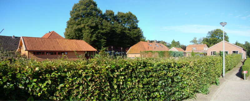 Onversaegt, Bredevoort